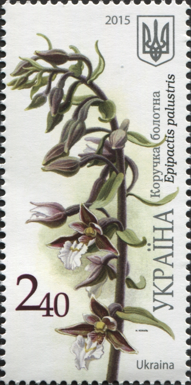 Stamps of Ukraine, 2015